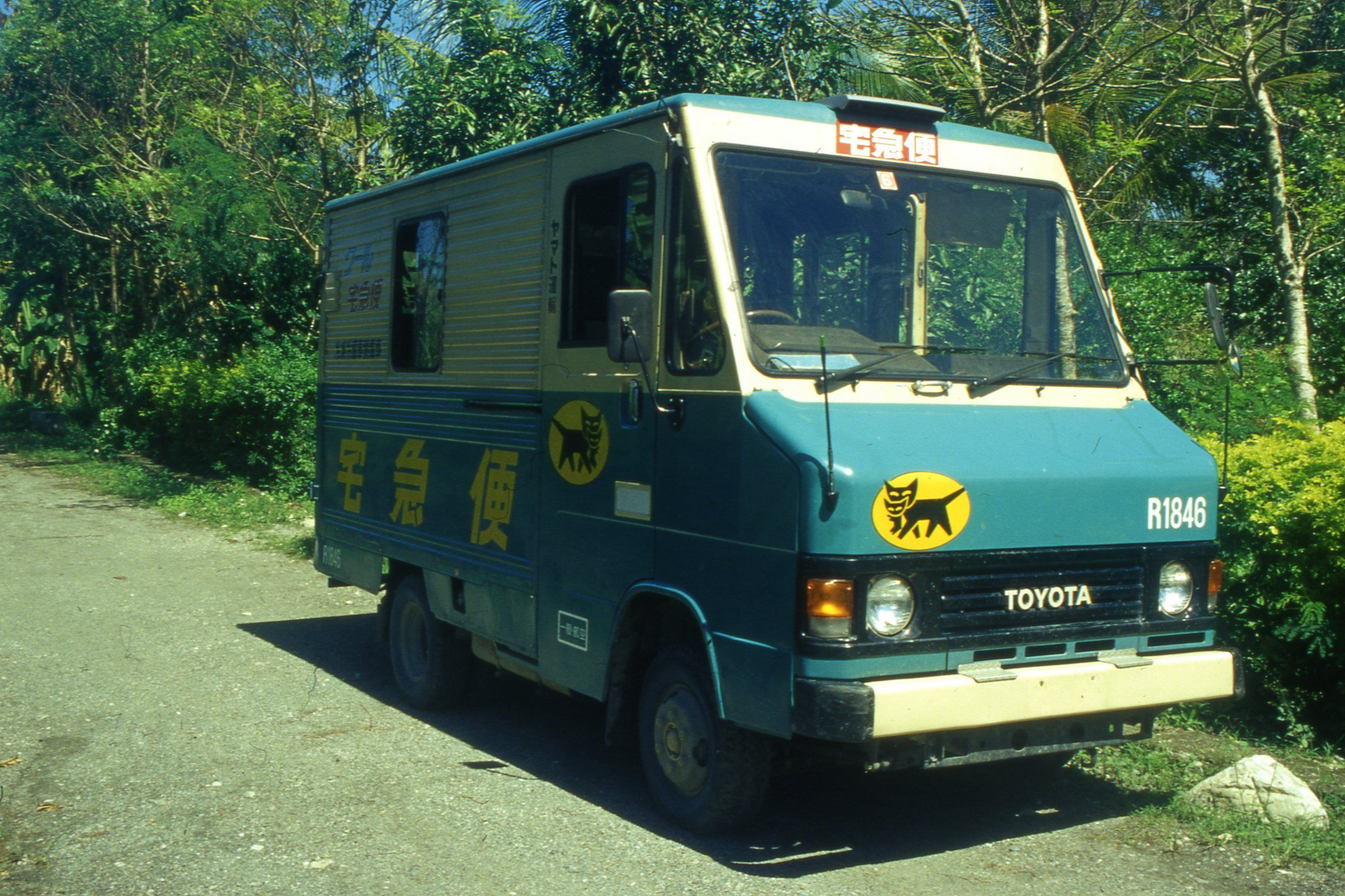 Yamato Transport donated this bus to East Timor. It is used in Wecian (Suco Dotik) as school bus